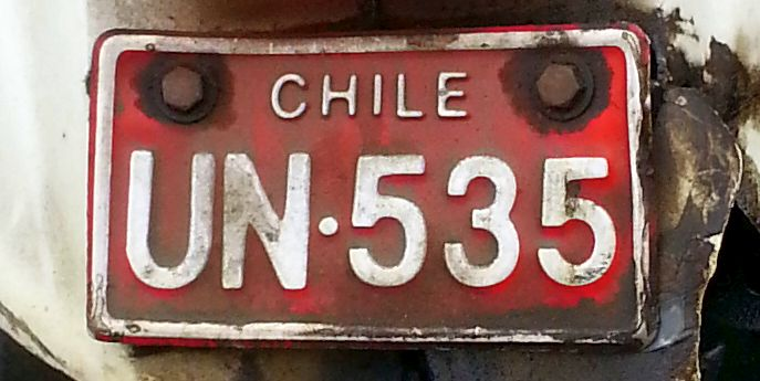 Chilean registration plate: motobike (Zona Franca)